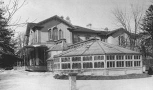 Sir Casimir Gzoski's 'The Hall' on Bathurst Street (east side) south of Dundas Street West, now site of Public Library in Alexandra Park, Toronto.